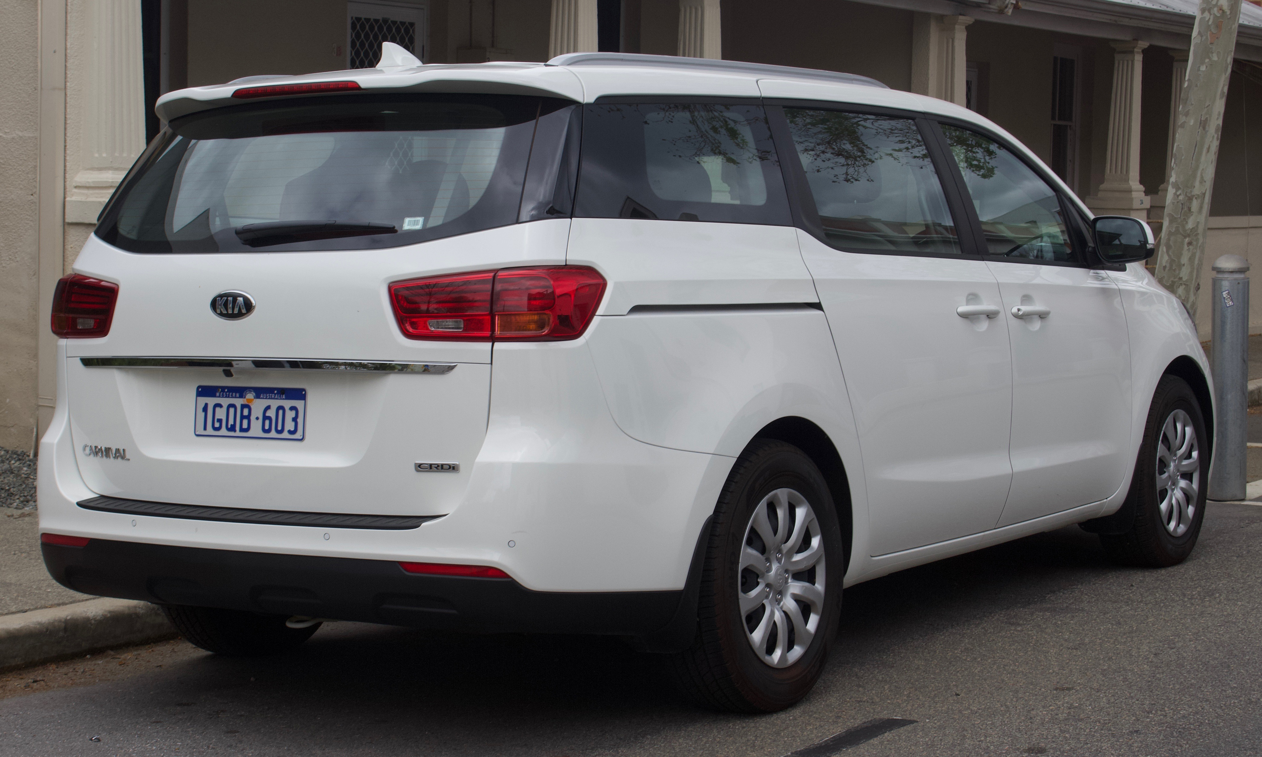 2018 Kia Carnival (YP MY19) S van. Photographed in Fremantle, Western Australia, Australia.